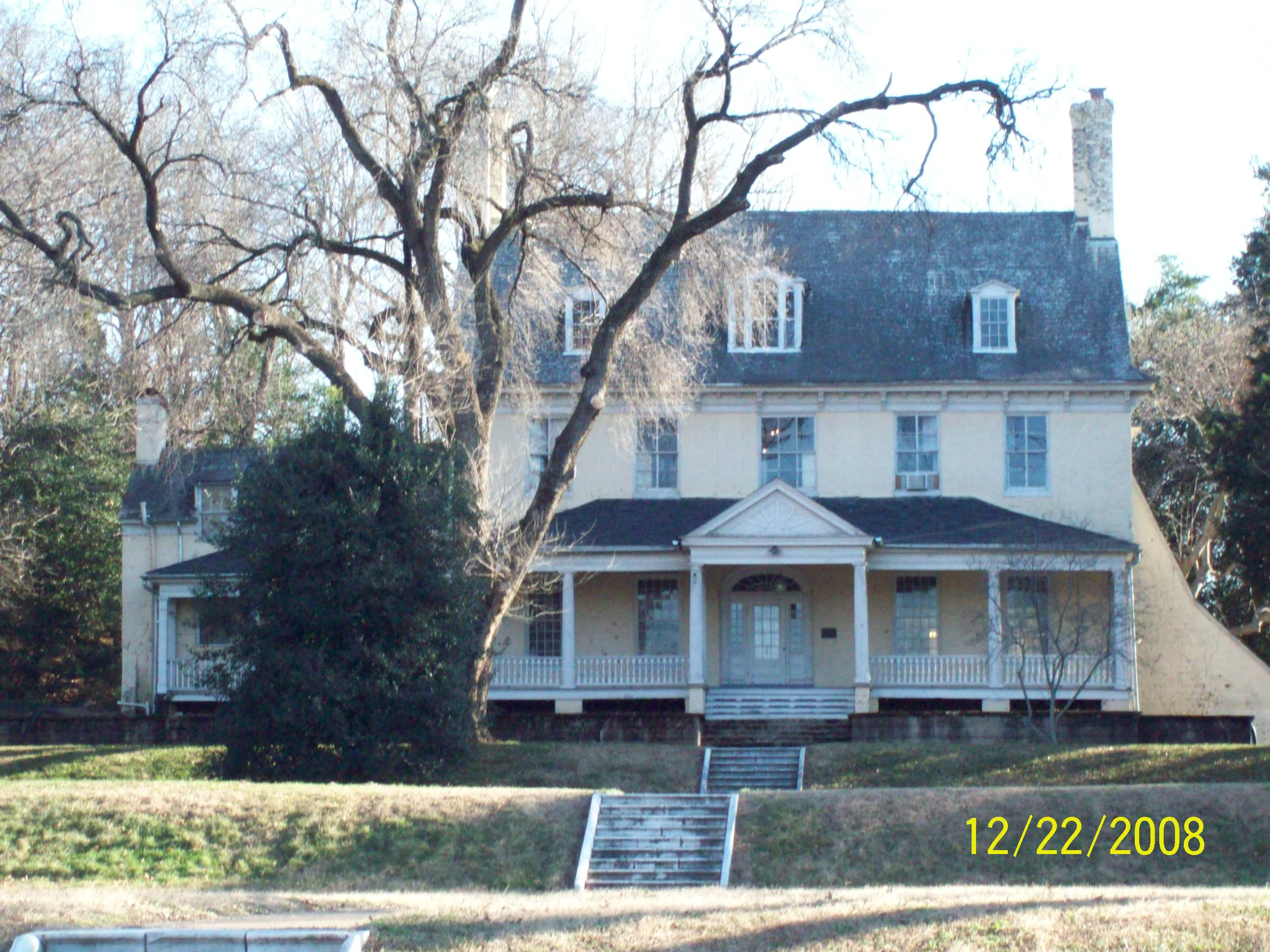 Bostwick, Bladensburg, Maryland, December 2008